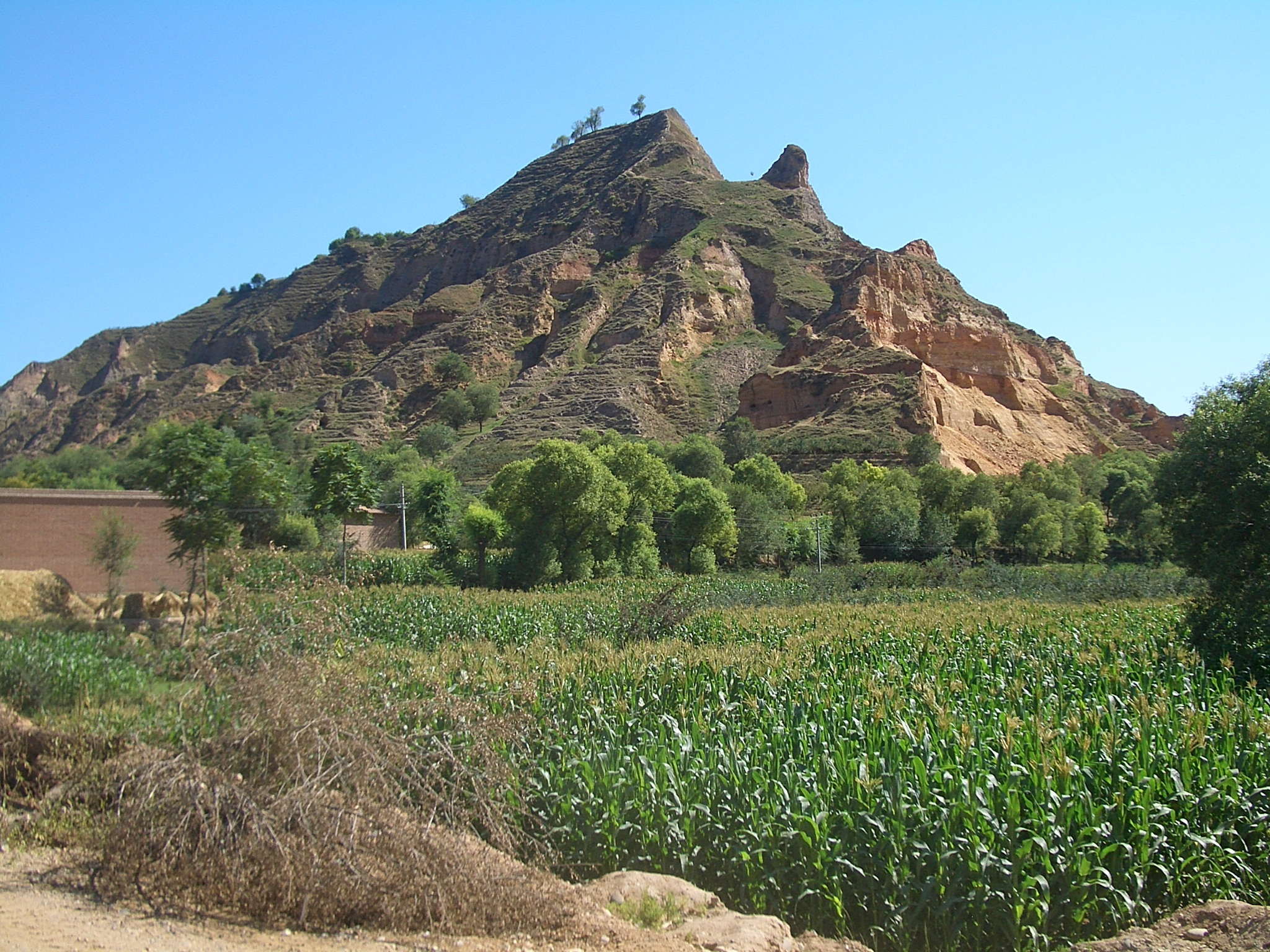 A characteristically eroded hill at the western side of the Daxia He River Valley, in the northeastern part of Linxia County (probably, Xihe Township).